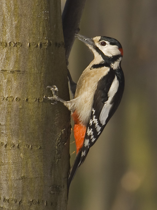 Great Spotted Woodpecker (Dendrocopos major).